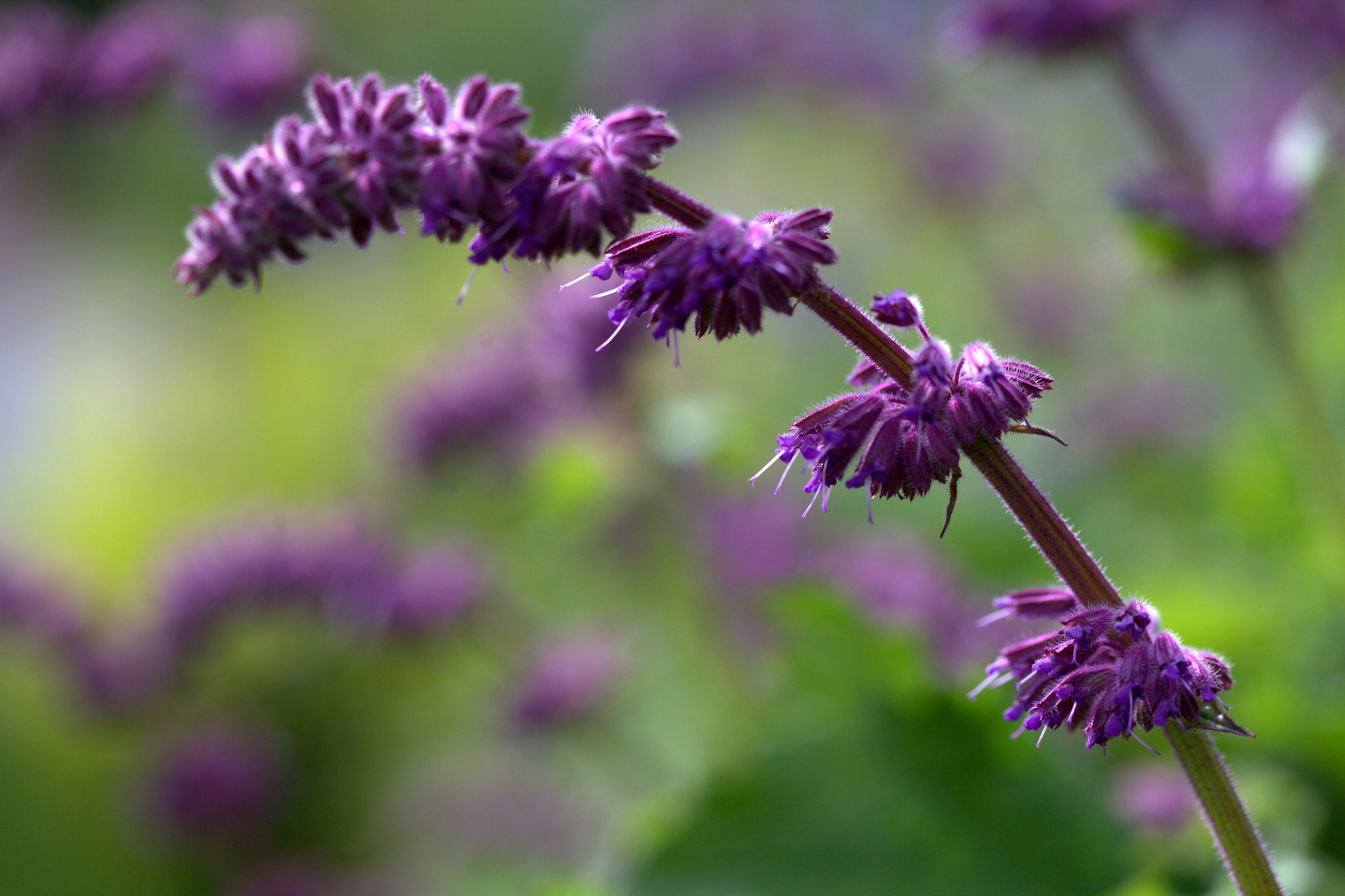 Photo taken at Gothenburg botanical garden. Specimen id: 2002-2273 p G Plant collected in 2002 from a garden (Djupedal).